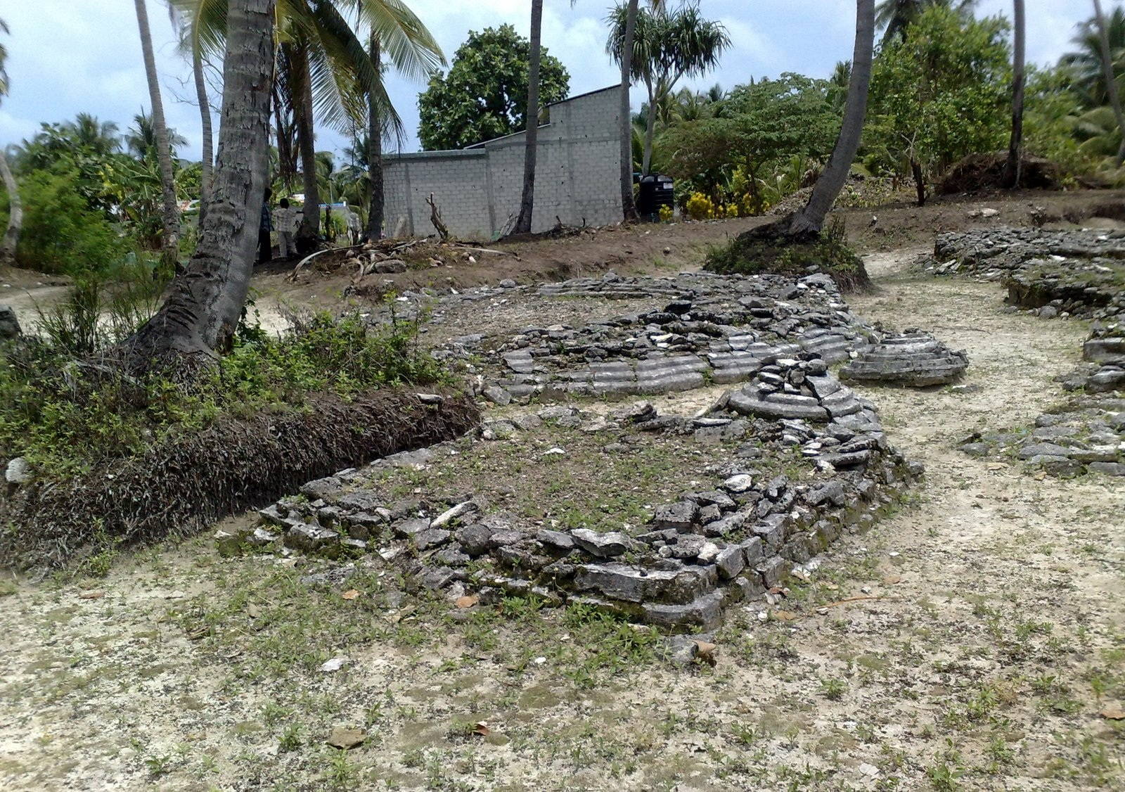 Buddhist Monastery in K.Kaashidhoo, Maldives (overview), reminiscent of the Buddhist population that was once established in the Maldives. The ruins lay bare to the monsoons. Although appreciably preserved when excavated, the condition of the site has rapidly deteriorated. Also shows the close proximity to islanders and the minimal protection this archaeological site has. The building on the background is a private residence block, much like a city block in cities. ދިވެހިބަސް: ކާށިދޫގަ ހުންނަ ކުރުހިންނަ ތަރާގަނޑު ދައްކުވައިދޭ ތަސްވީރެއް. މިއީ ރާއްޖޭގެ ތަރިކައިގެ ތެރެއިން ބުޑިސްޓު އާސާރު ދައްކުވައިދޭތަނެއް. ވެހޭހާ ވާރެއަކާ ދޭހާ އަތްވަކަށް ތަރާގަނޑު ހުށައެޅިފައިވުމުގެ ސަބަބުން ވަރަށް އަވަސް މުއްދަތެއްގައި މިތަނުގެ ހާލަތު ދަށް ވަމުންގޮސްފައިވޭ